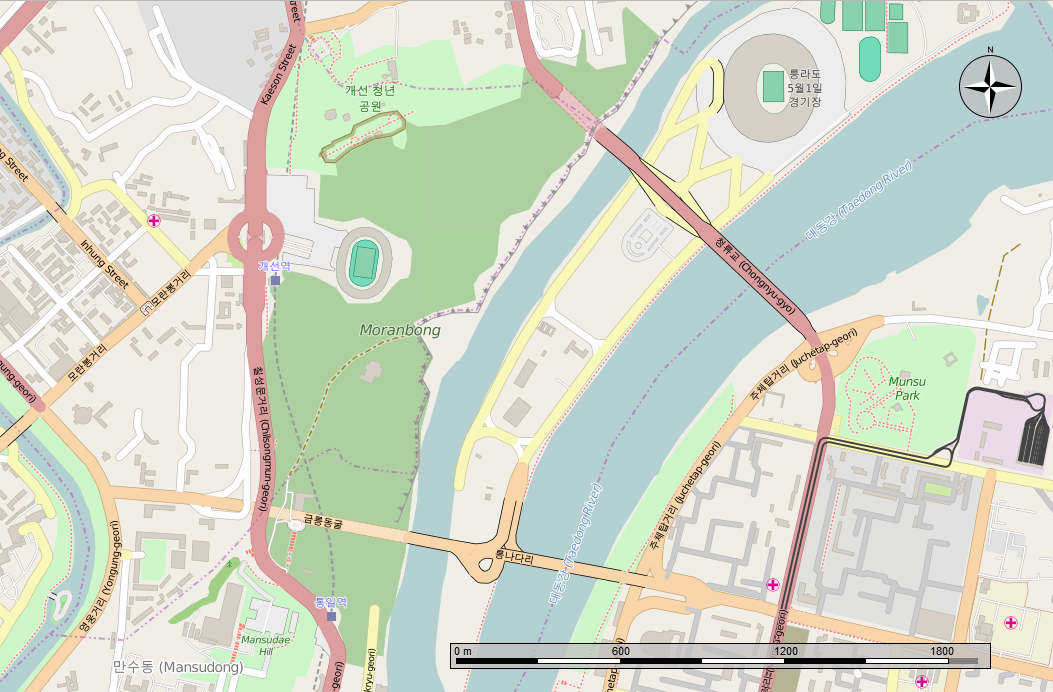 Map showing the extend of Moranbong Park in Pyongyang, North Korea. Cropped by the uploader. Marble program, OSM maps.